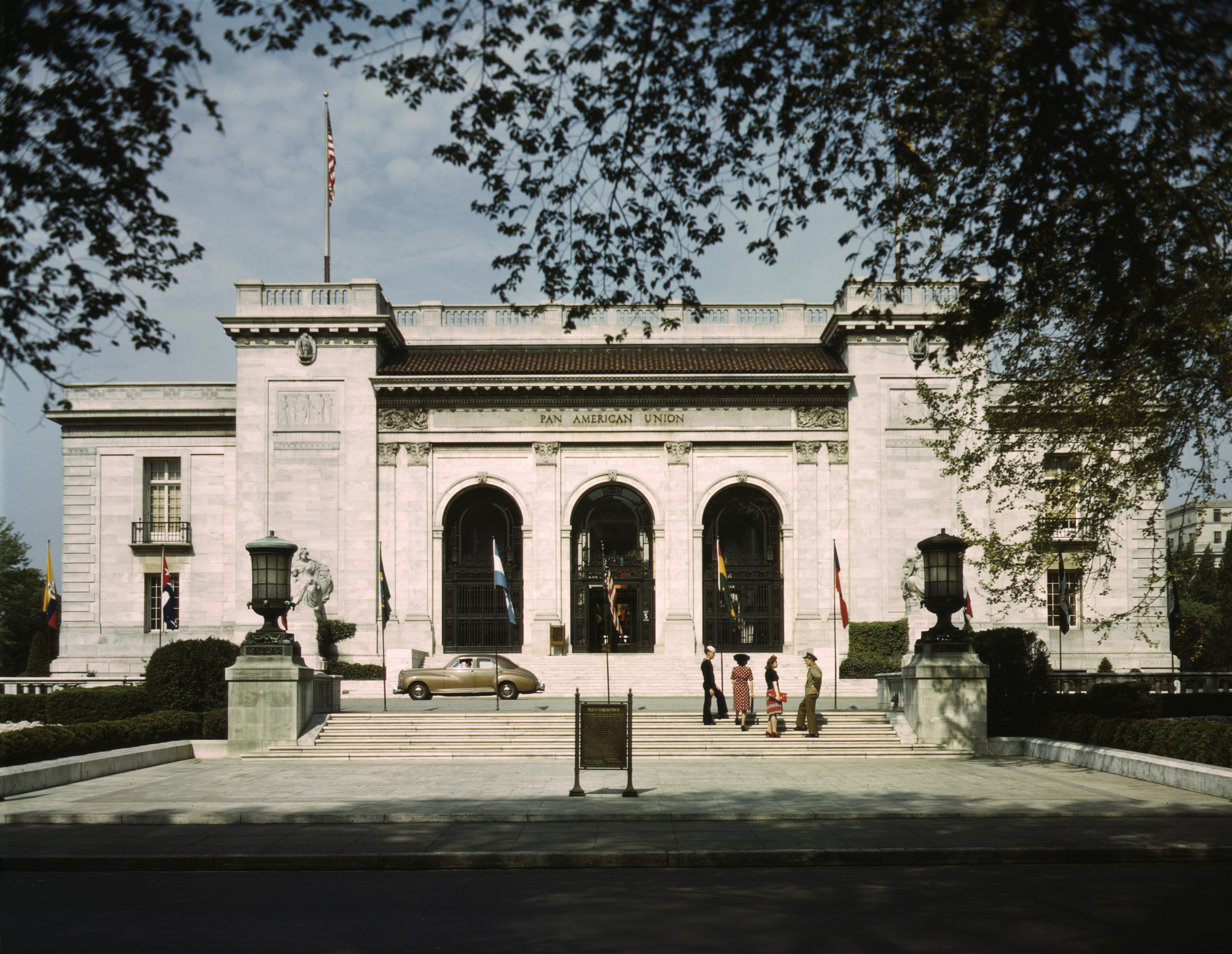 Organization of American States. Library of Congress description: "Front view of the Pan American Union, Washington, D.C."